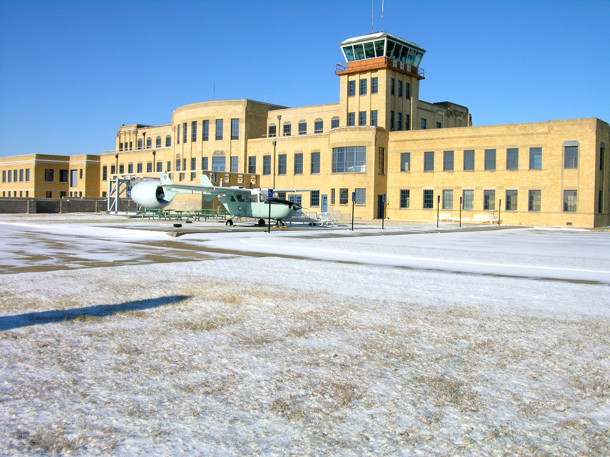 Kansas Aviation Museum. South side of building looking North West.